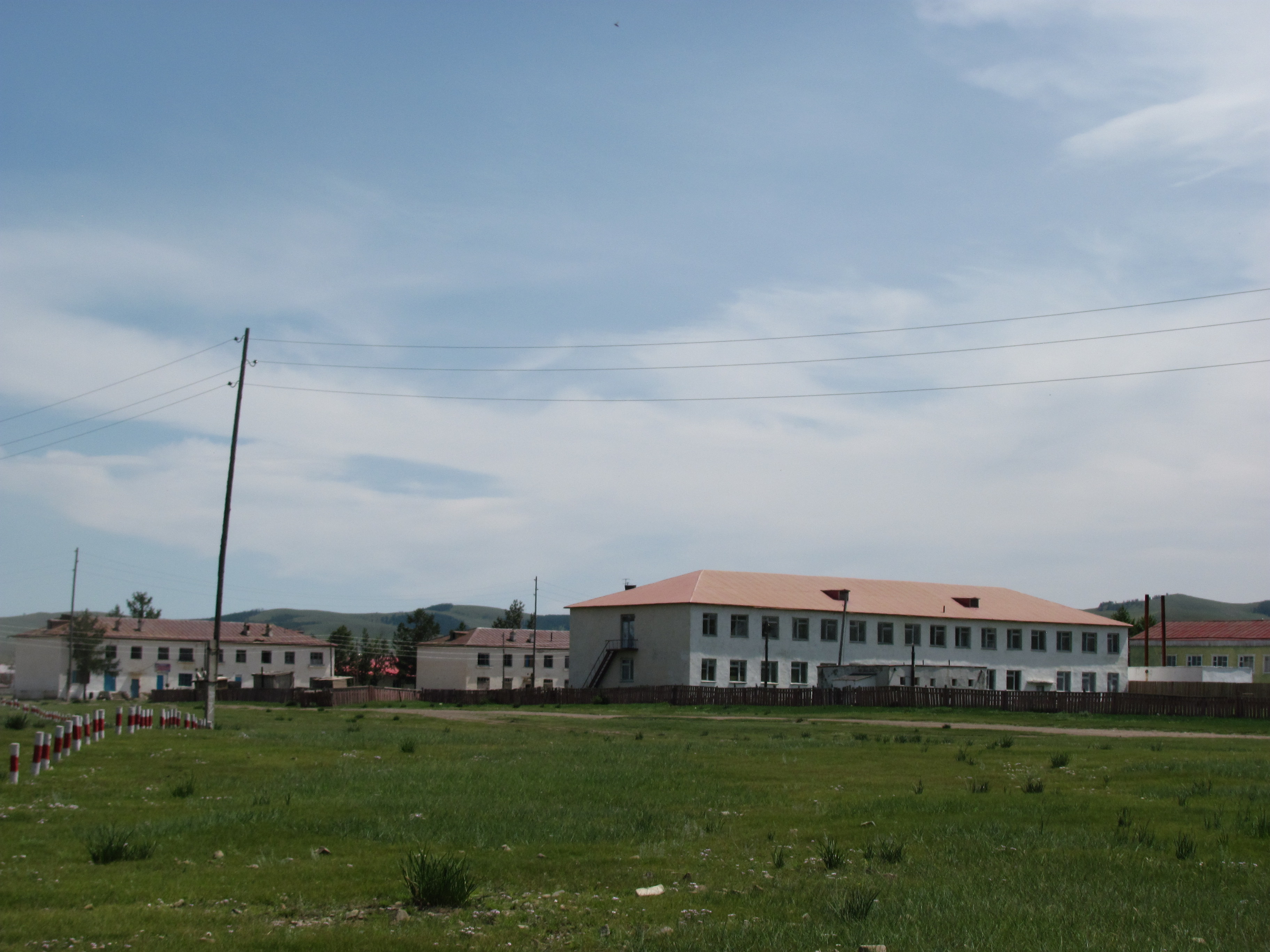 Town of Tuvshruluch, school, Arkhangai Aimag, Mongolia